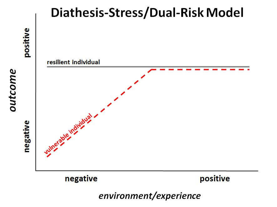 Figure 1. Graphical display of the diathesis-stress/dual-risk model. The X-axis indicates quality of the environment/experiences from negative to positive. The Y-axis indicates the developmental outcome from negative to positive. The lines depict two categorical groups that differ in their responsiveness to a negative environment: the “vulnerable” group shows a negative outcome when exposed to a negative environment, while the “resilient” group is not affected by it. No differences between the two groups emerge in a positive environment.